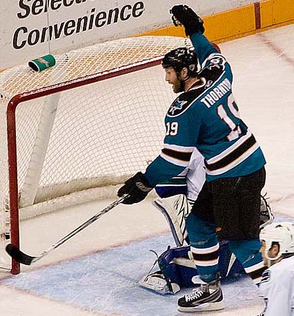 San Jose Sharks centre Joe Thornton celebrates a goal against Roberto Luongo in a game against the Vancouver Canucks in 2007.